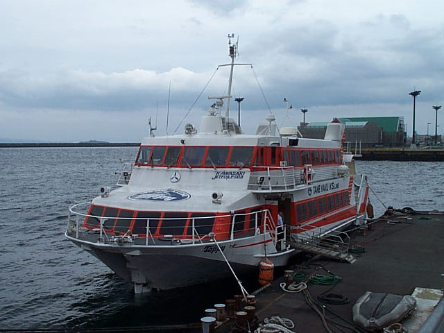 Jetfoil Toppy is transporter which connects Yaku Island, Tanegashima Island and Kagoshima port. IMO number: 8819160 Callsign: JM5778